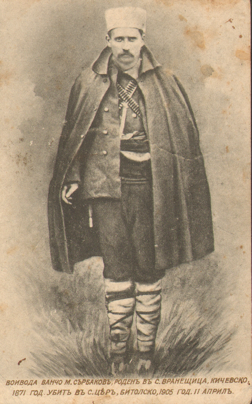 portrait of Vancho Sarbaka